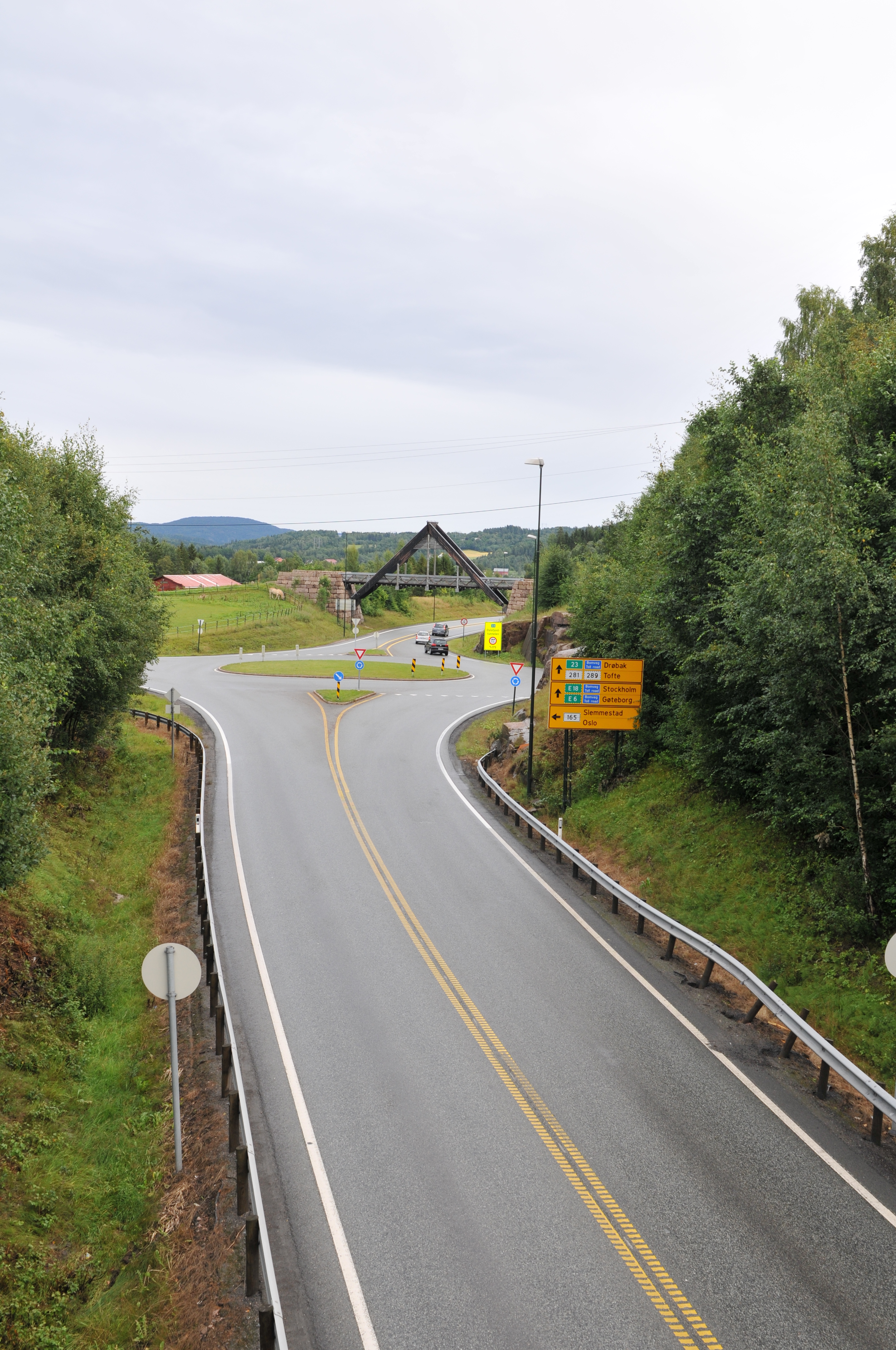 Riksvei 23 with the round-about where Slemmestadveien (Fylkesvei 165) starts in Røyken, Buskerud, Norway. View eastward toward Hurum from the Katrineåsveien bridge.